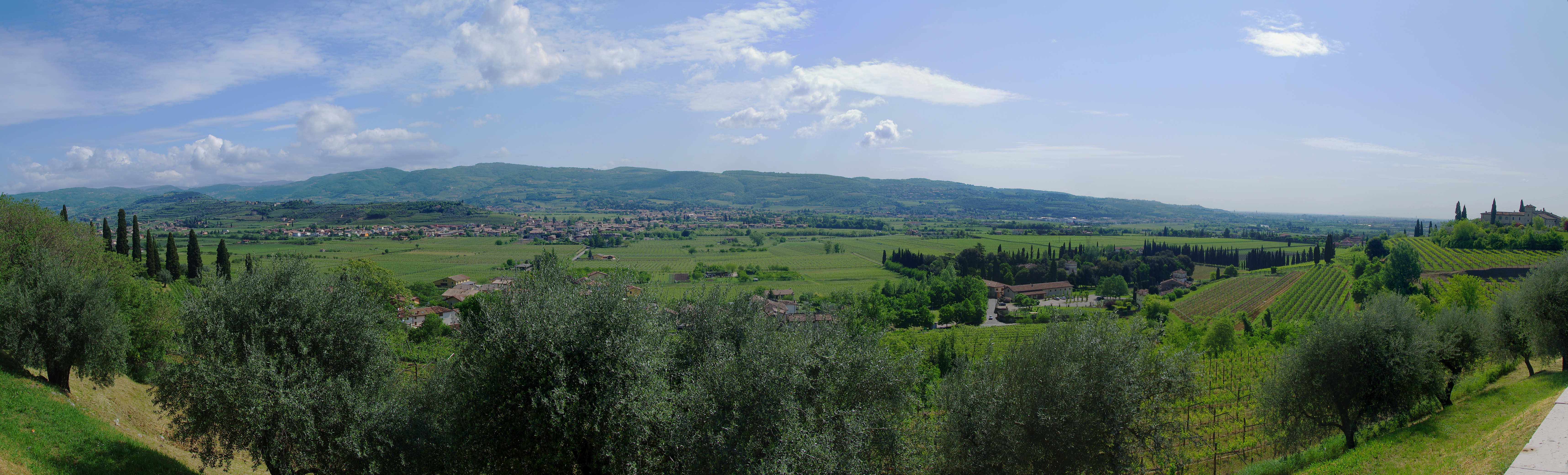 Panoramic view from the hill of Castelrotto (San Pietro in Cariano Valpolicella VR ITALY) to: Pedemonte, Arbizzano, Cengia, Campagnole, Quar, Montericco - Renaissance Palladian villa in the distance Venetian Renaissance sixteenth century AD - Olive (Olea europaea) - vines of varieties: Corvina Rondinella Molinara corvinone Dindarella Oseleta croatina - a morning in April 2014 Spring - amplitude about 180 ° Panoramic photo by combining about 5 or 6 photo with hugin for the Mamme della Valpolicella (Moms of the Valpolicella, against the overbuilding and speculation of Valpolicella) - photographer Paolo Villa - camera Pentax K-5 II - lens Tamron SP AF 17-50mm F2, 8